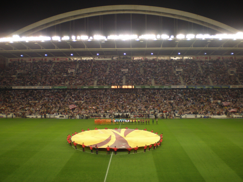 The San Mames stadium during a match of the UEFA Europa League.